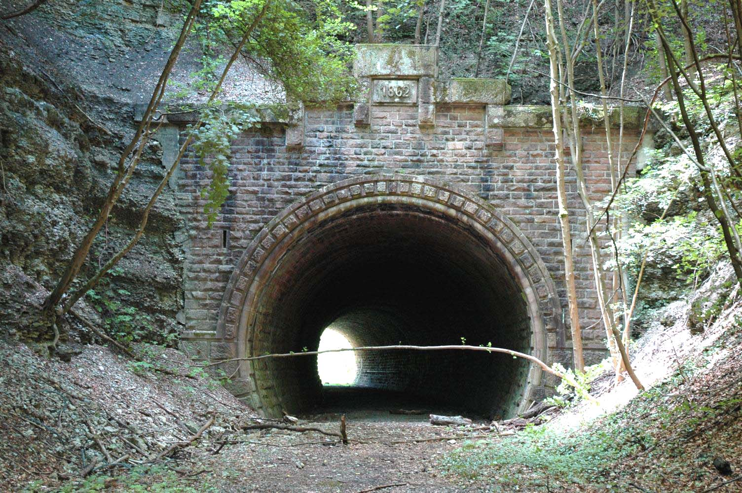 Eastern entry of the Erlesrain railway tunnel near Obrigheim, Germany.